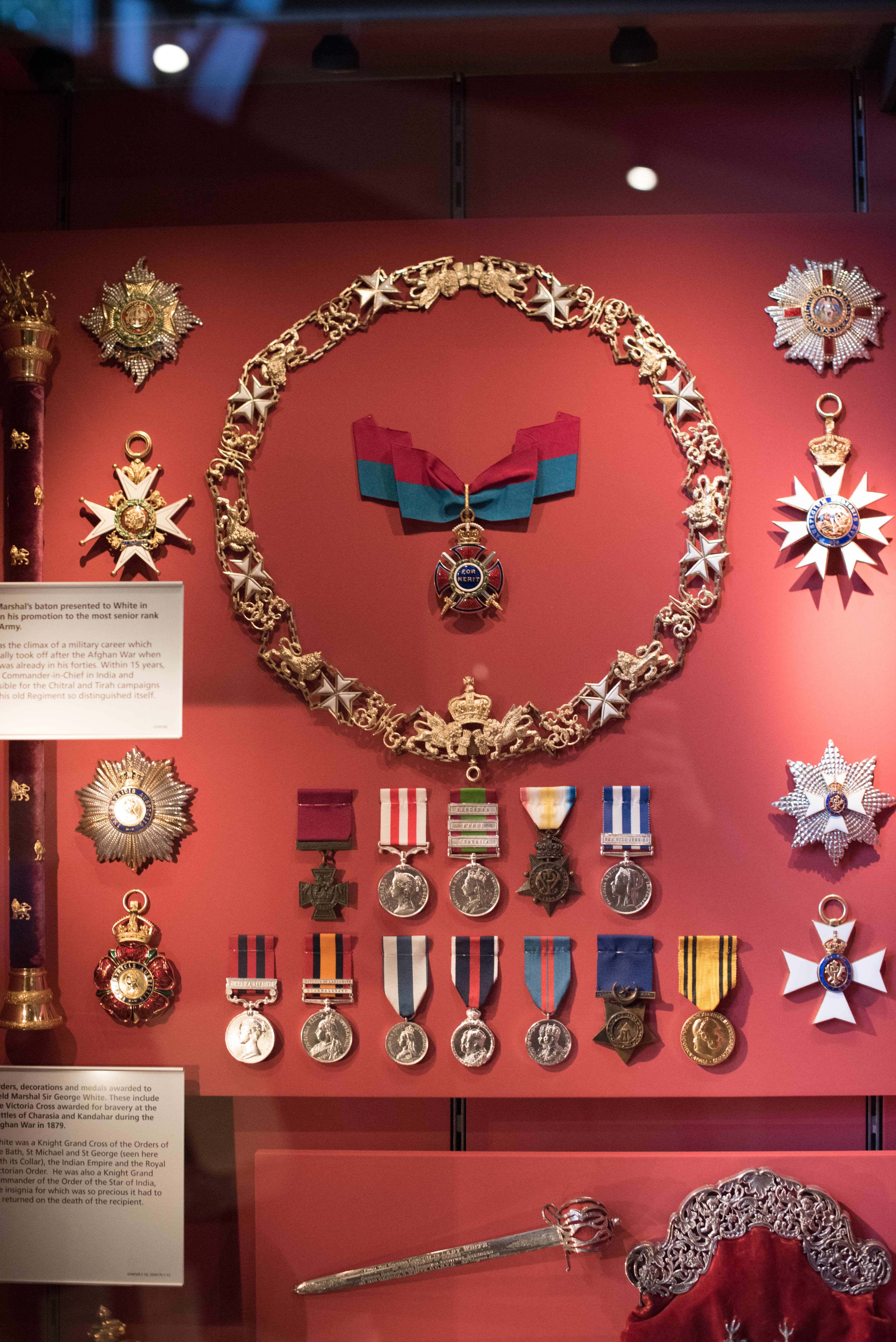 Field Marshal George White VCs collection of medals and awards on display at the Gordon Highlanders Museum